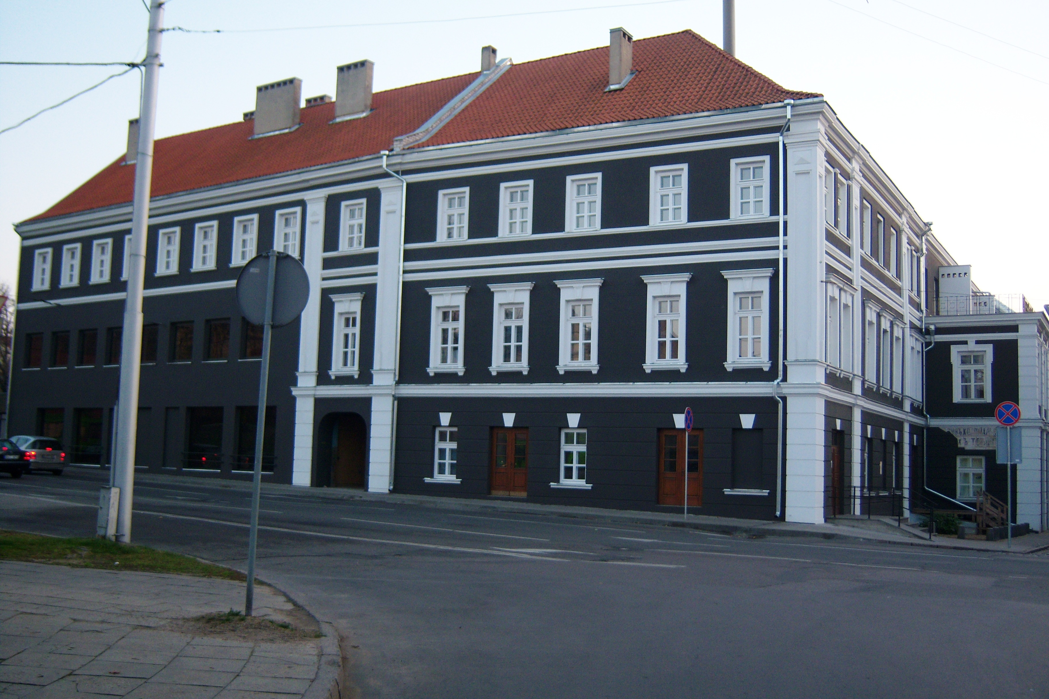 Antanas Martinaitis school of arts, Kaunas, Lithuania